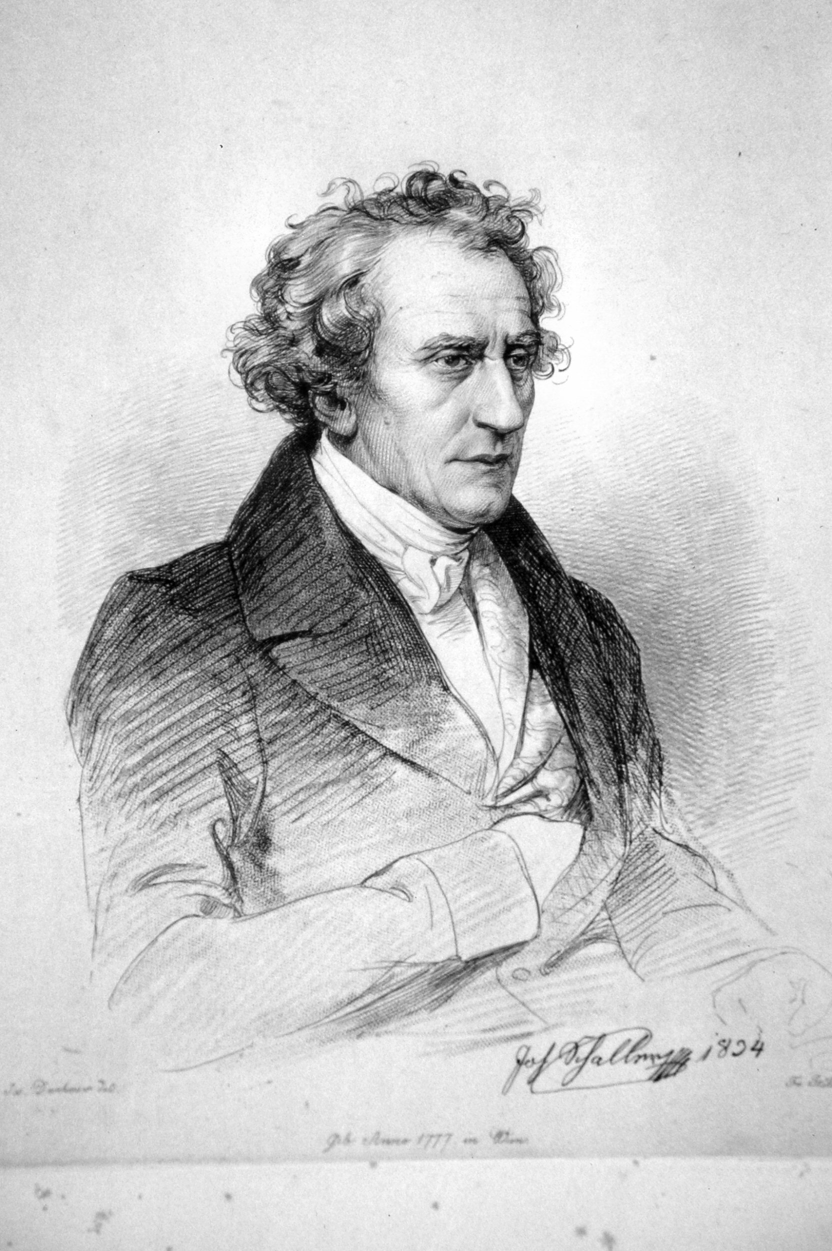 The portrait of Austrian sculptor Johann Nepomuk Schaller (1777—1842)